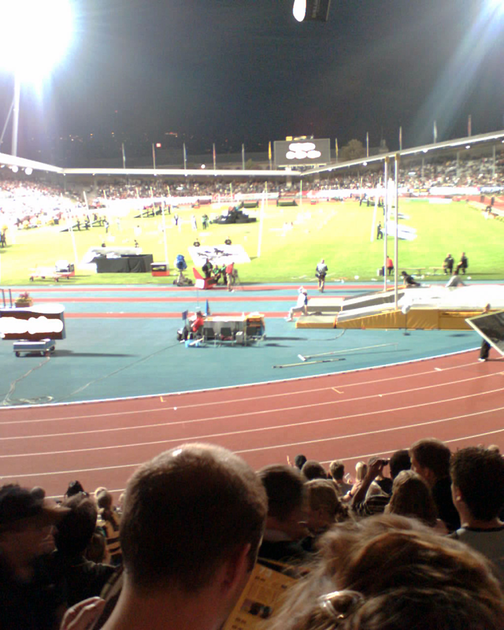 Ceremony at the end of the last annual athletics meeting Weltklasse Zürich in the old stadium Letzigrund a few days before demolition for renovation